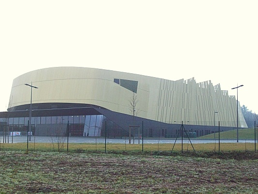 La nouvelle salle polyvalente de spectacle: Le Scarabée